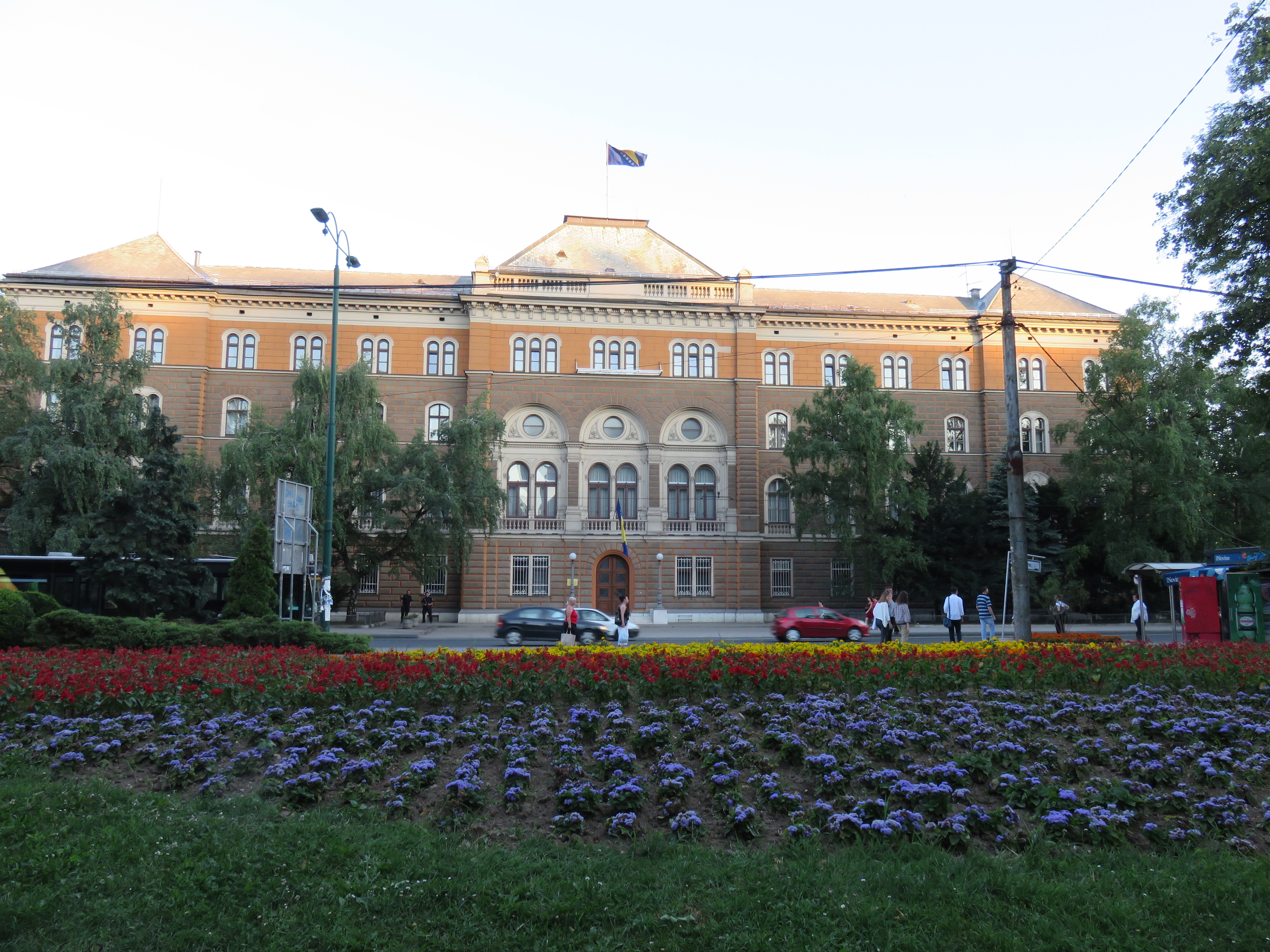 The presidency building of Bosnia and Herzegovina in Sarajevo